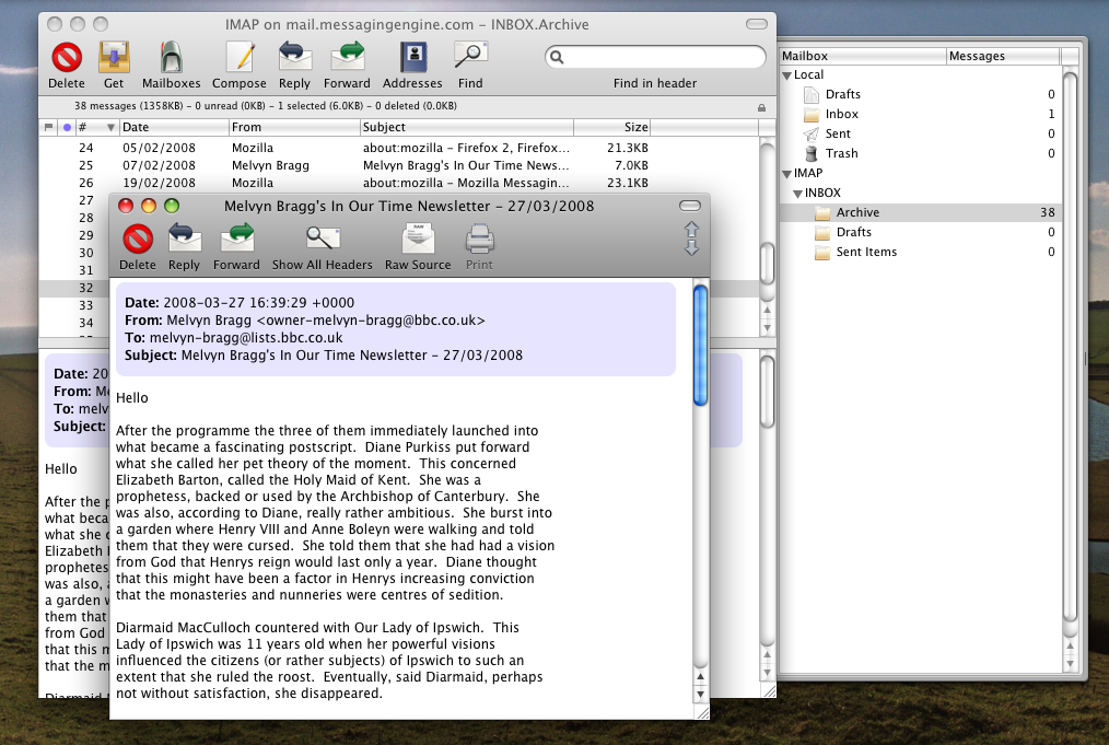 GNUMail 1.2.0 screenshot.